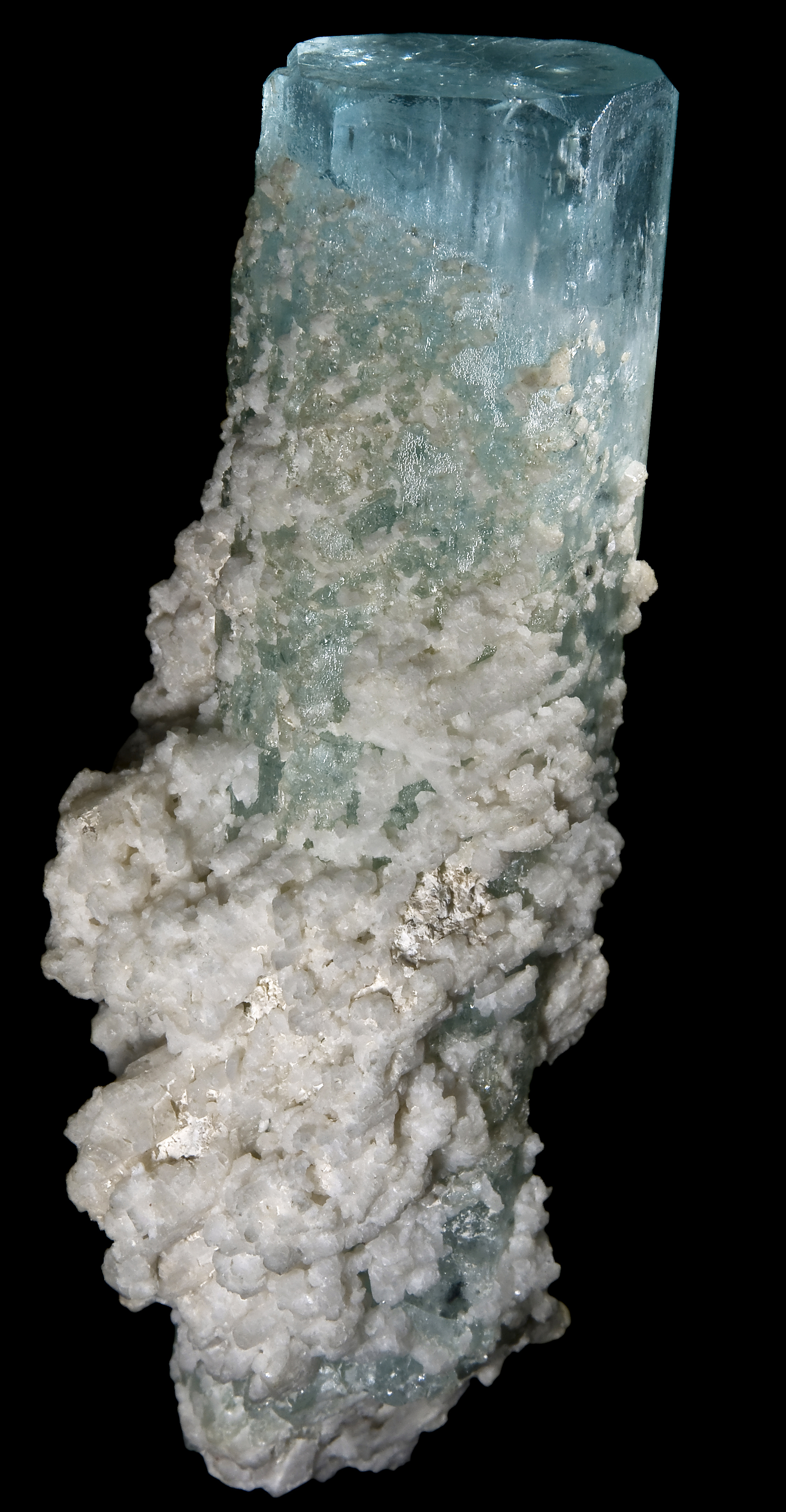 Aquamarine and albite - Minas Gerais - Brasil ( 10.2x4cm)